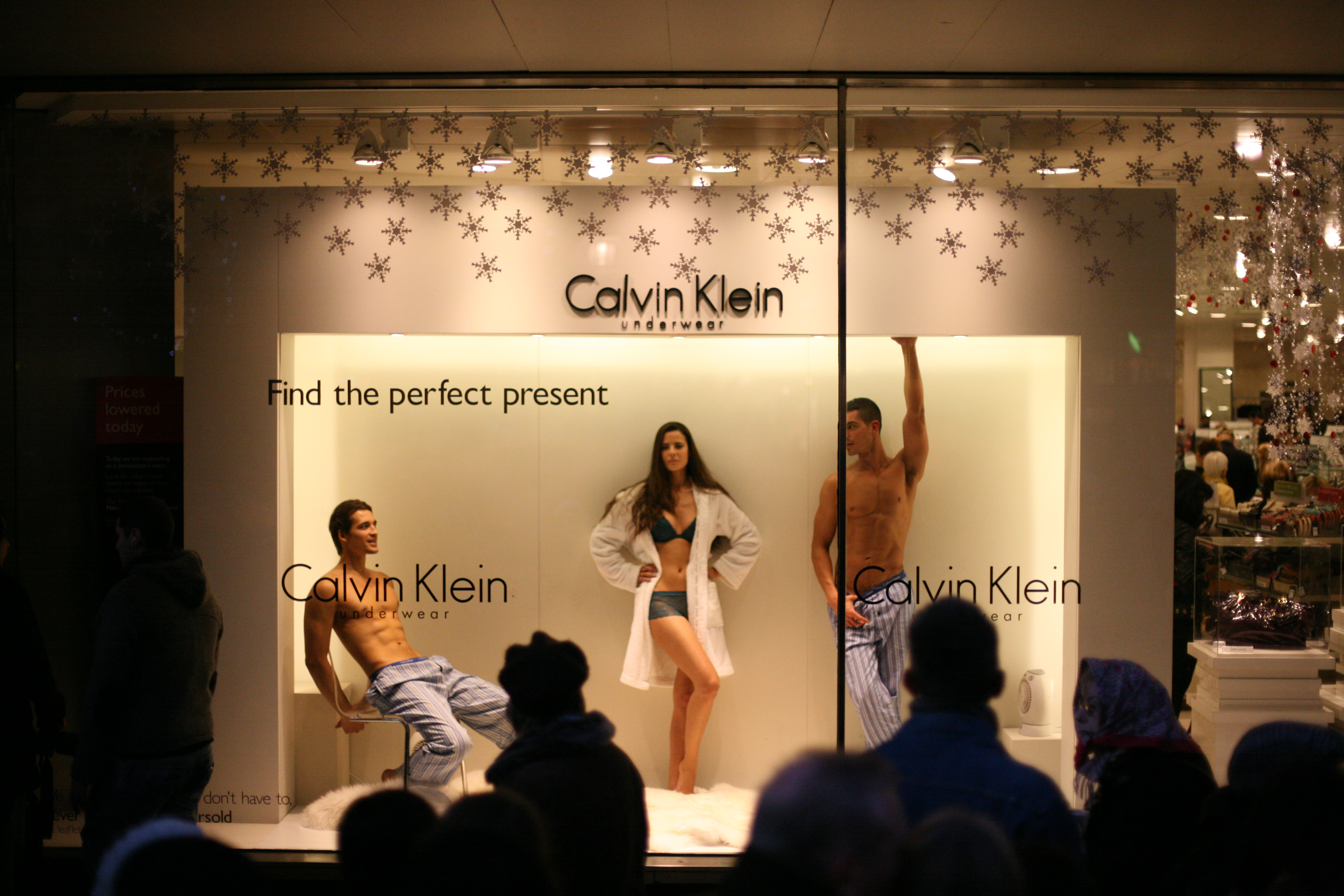 Calvin Klein in London used human models in its store window on Saturday.